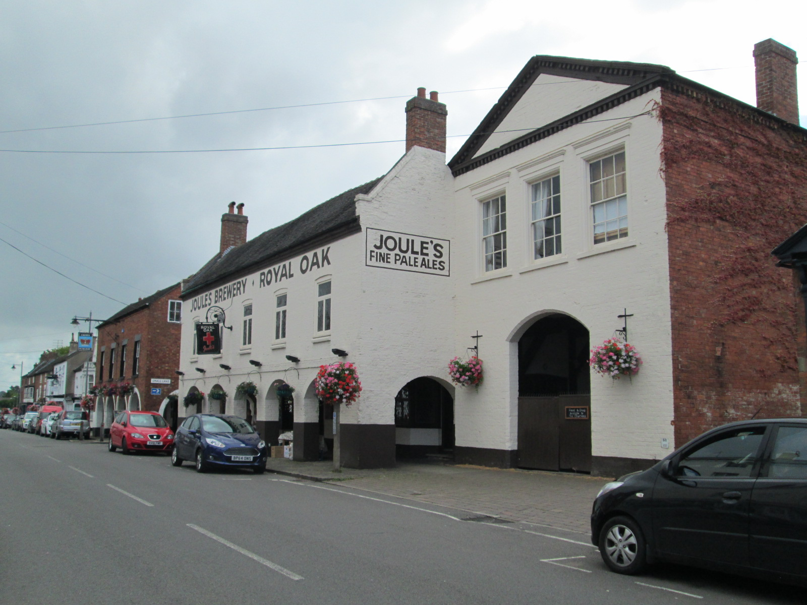 The Royal Oak, on the south side of High Street, Eccleshall.